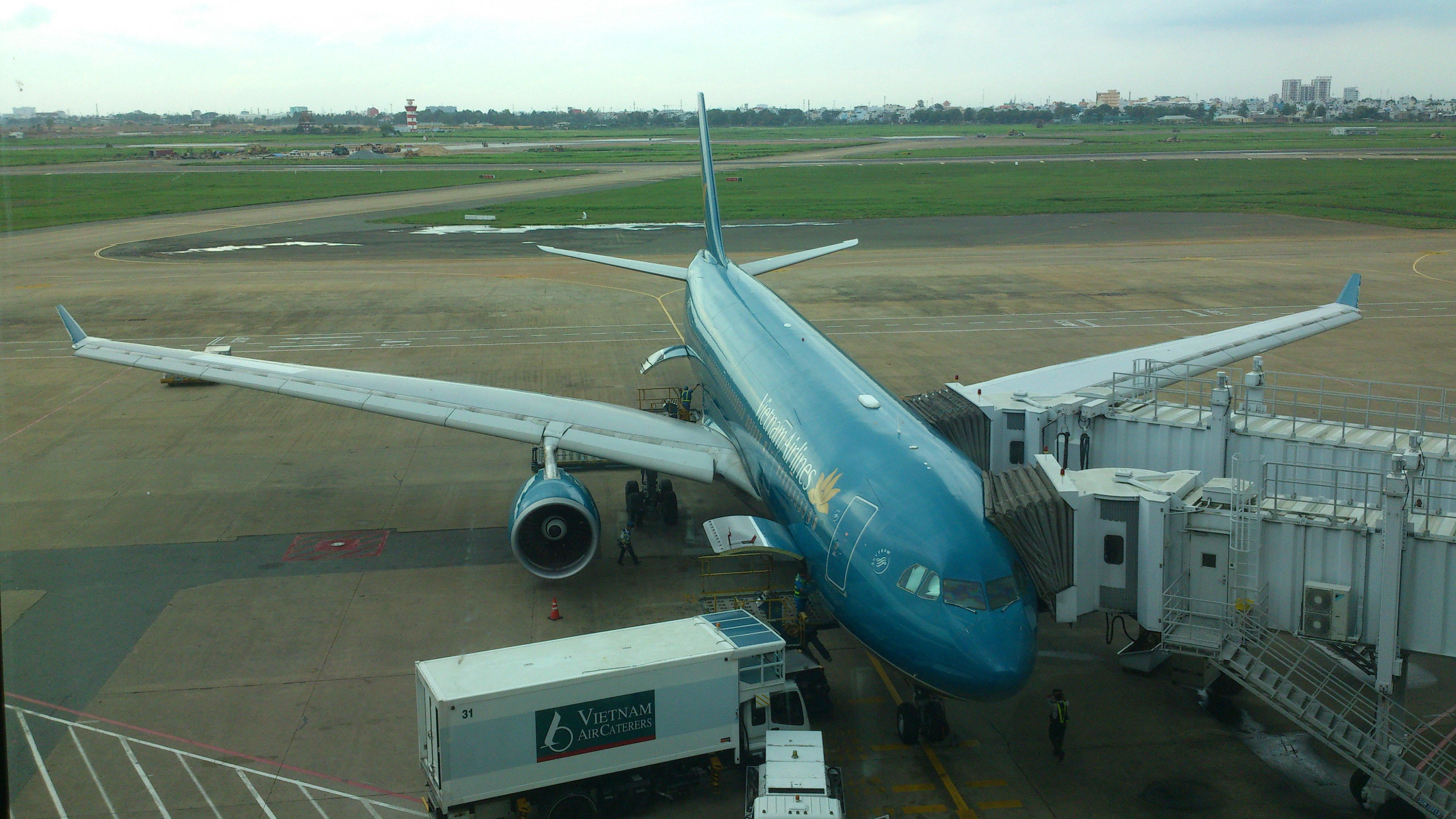 Vietnam Airlines AIRBUS A330-200 at Tan Son Nhat airport